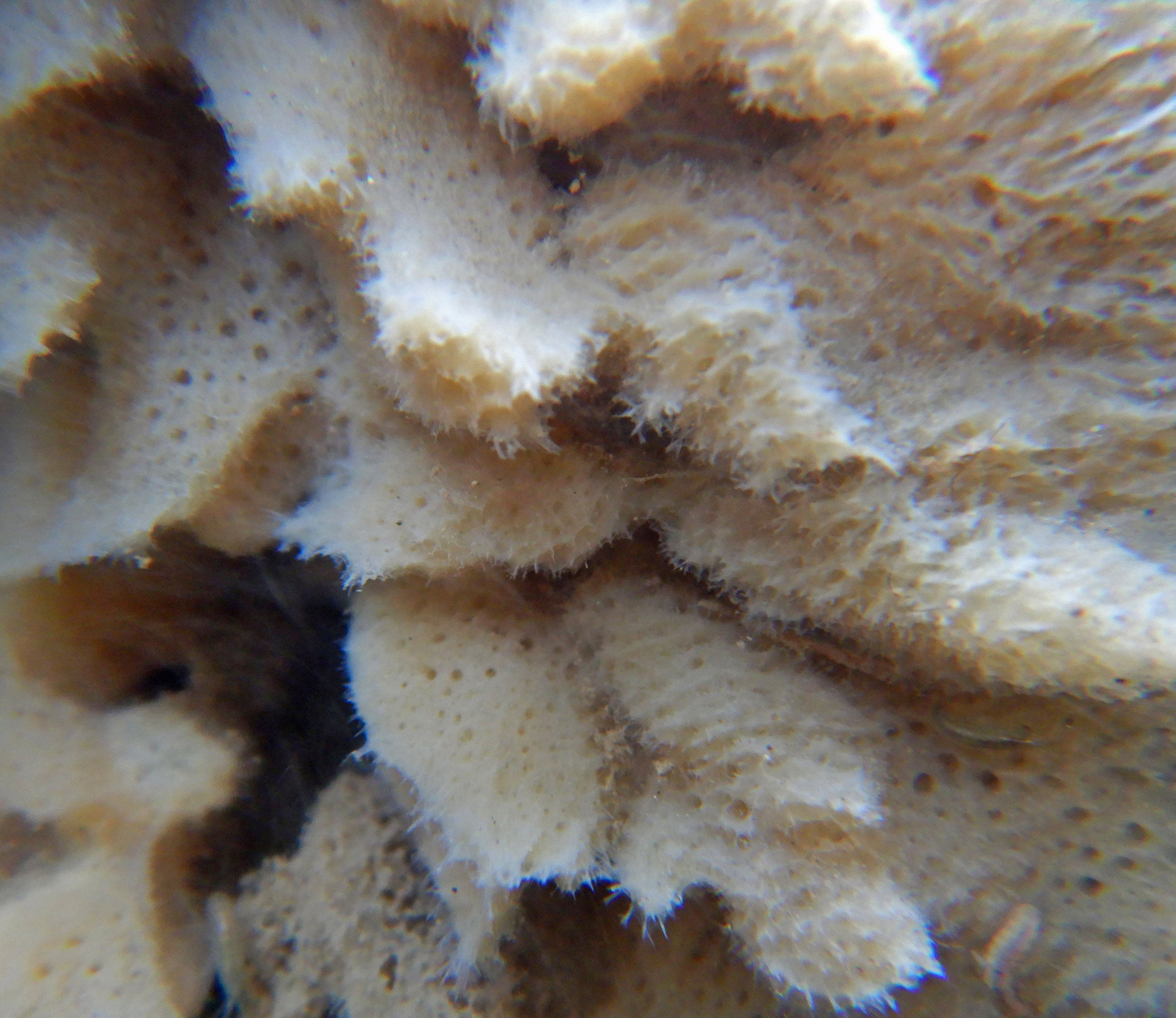 Fresh water Sponge in Authie river (in the Region Hauts-de-France, Northern France). Note: Despite several rainy periods in the hours and days before this photo the water remained clear, the sponges help to filter the water, but not in winter for some species like spongilla lacustris.